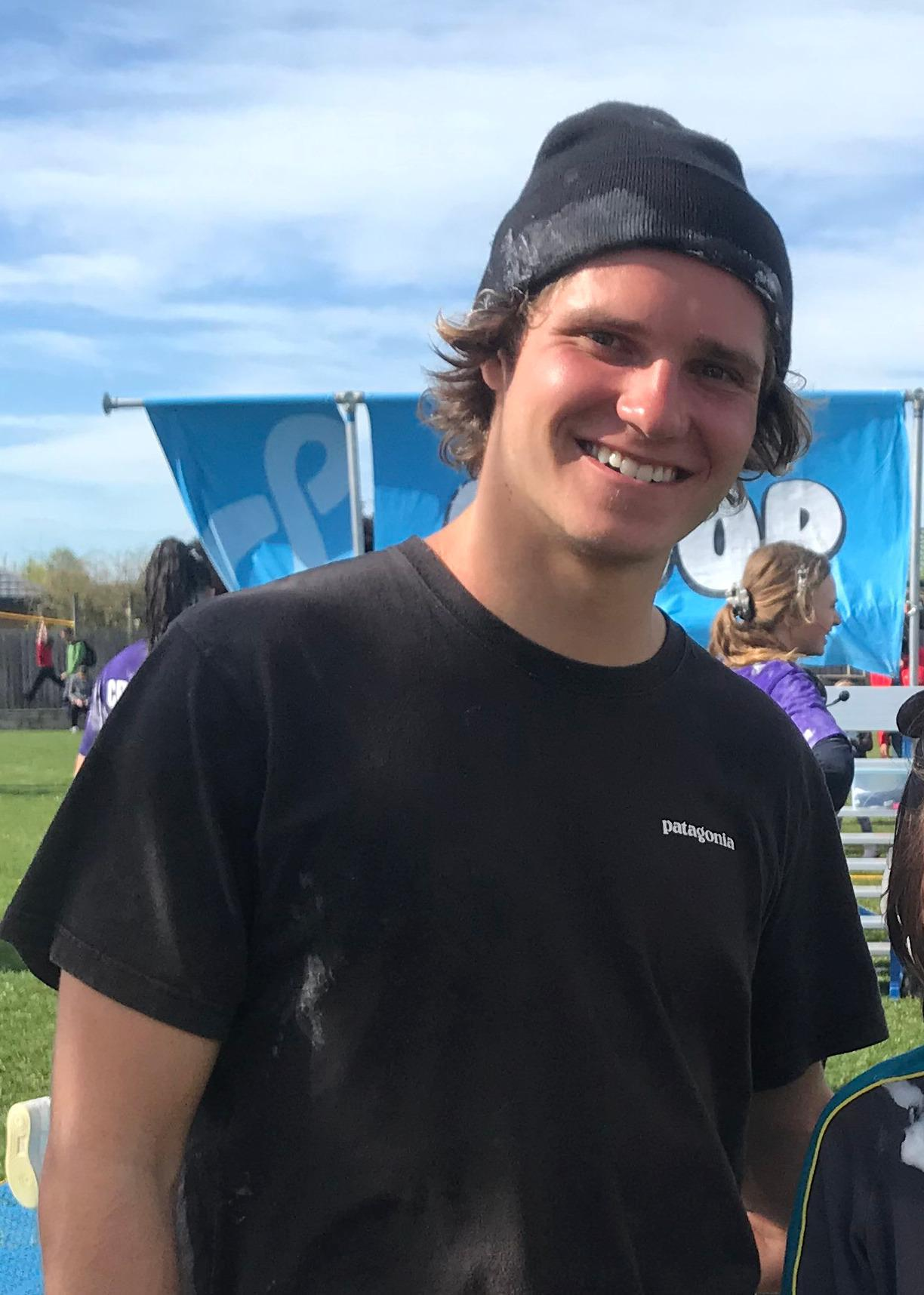 New Zealand athlete Miguel Porteous on the set of the childrens television show 'What Now' in 2019, as part of a show broadcast live in Rolleston on Sunday 20th October.